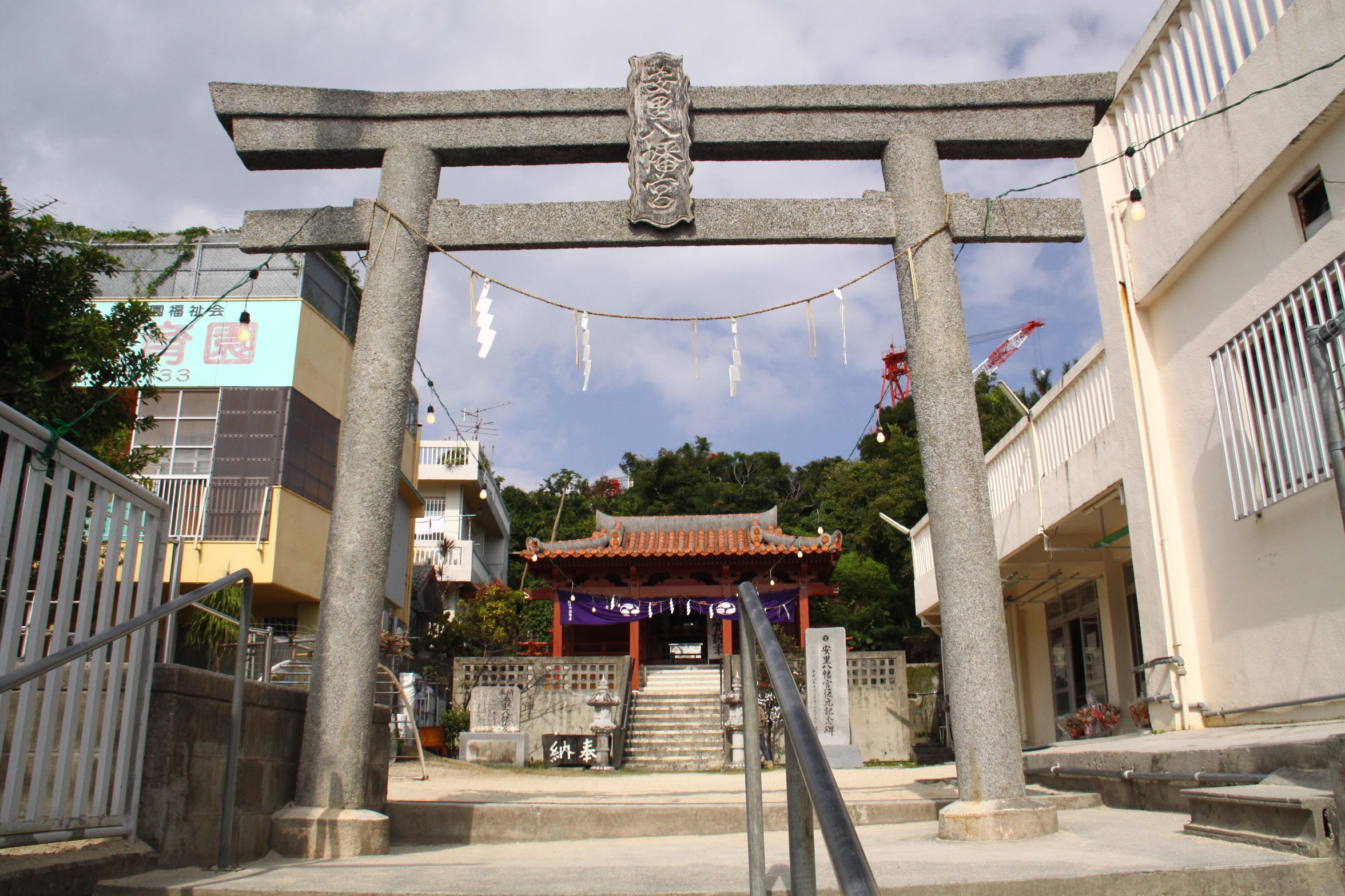 Asato-Hachimangū Torii gate.